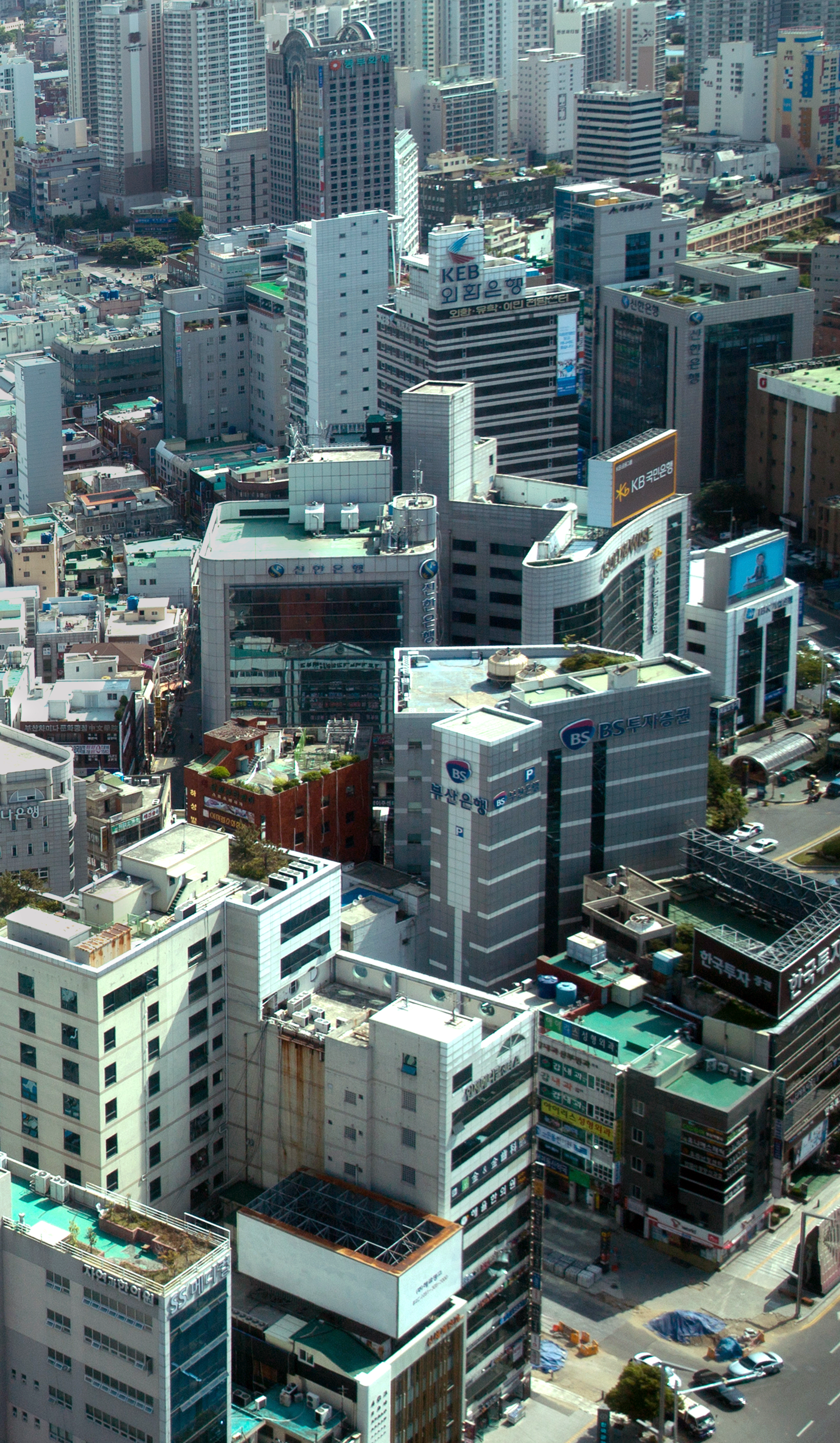 Central Seomyeon in Busan, South Korea. Part of a photograph from Flickr; author i.love.marimilk; license of CC BY-SA 2.0. This is a part of the original photograph, plus additional changes (lighting, cropping, etc.).